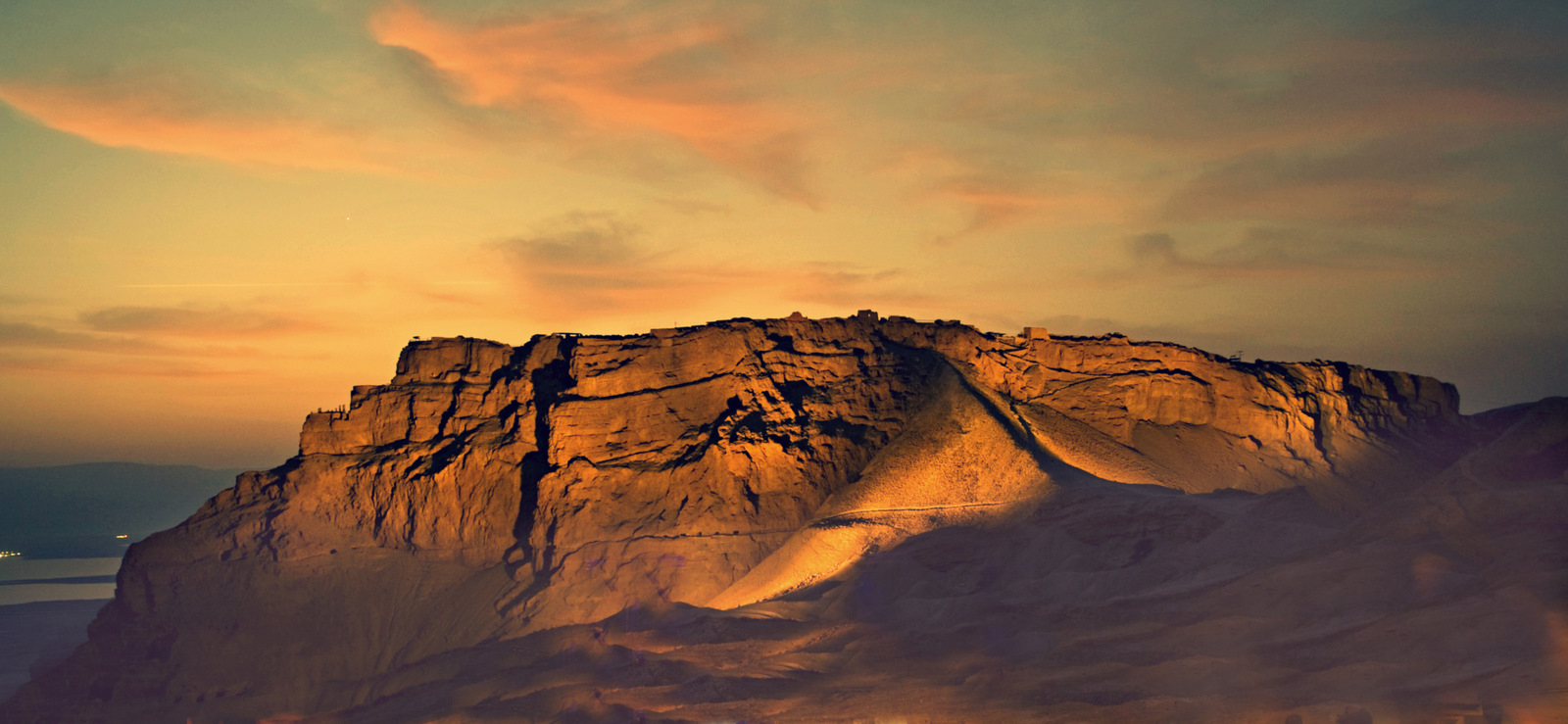 masada dead sea israel